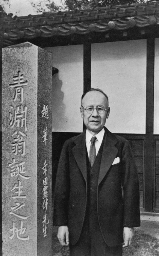 Recent portrait of Mr. Motoji Shibusawa.